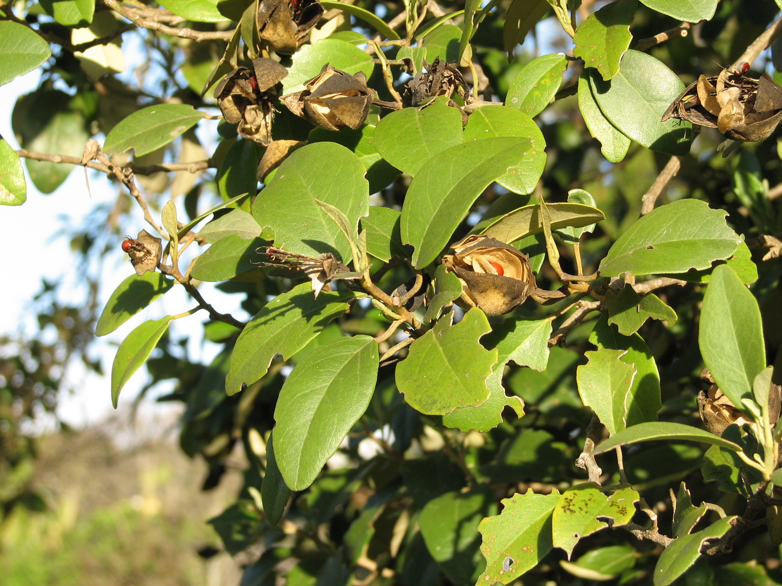 Taken by myself some time in August 2006, at the Royal Botanic Gardens, Sydney